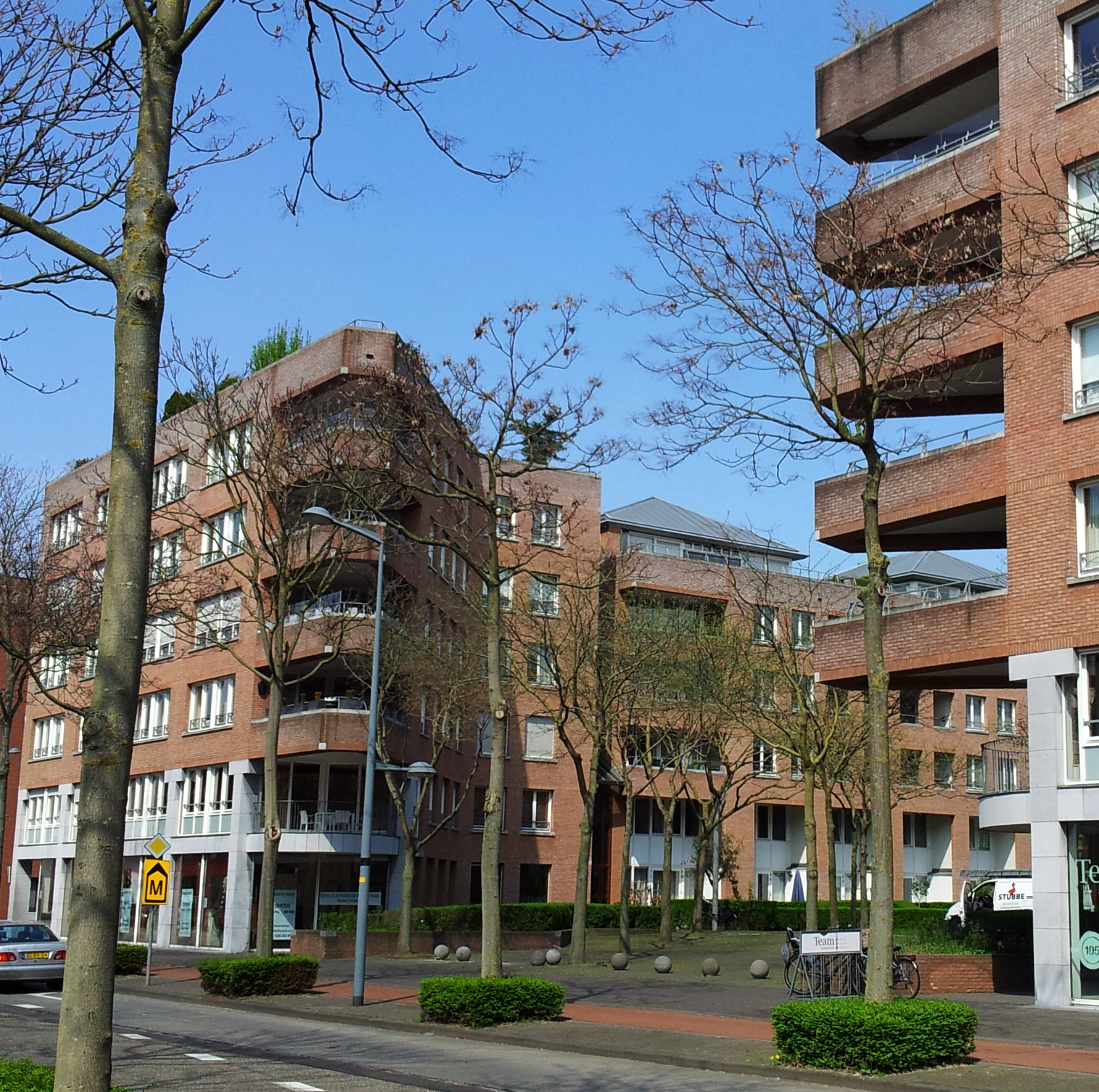 Maastricht, the Netherlands. View of Résidence Cortile, one of the buildings in the newly developped Céramique district, designed by Bruno Albert.